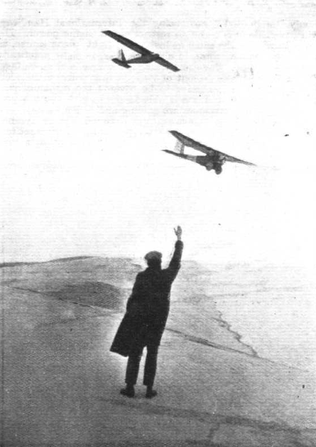 The Dessauer glider (upper aircraft) at Rossitern